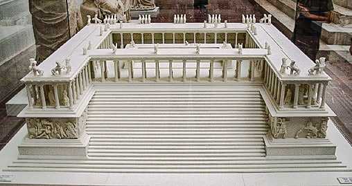 Model of the altar to Zeus in the Pergamonmuseum, Berlin. Fotografía realizada con cámara digital por Nicolás Pérez. Museo de Pérgamo, Berlín junio de 2004.